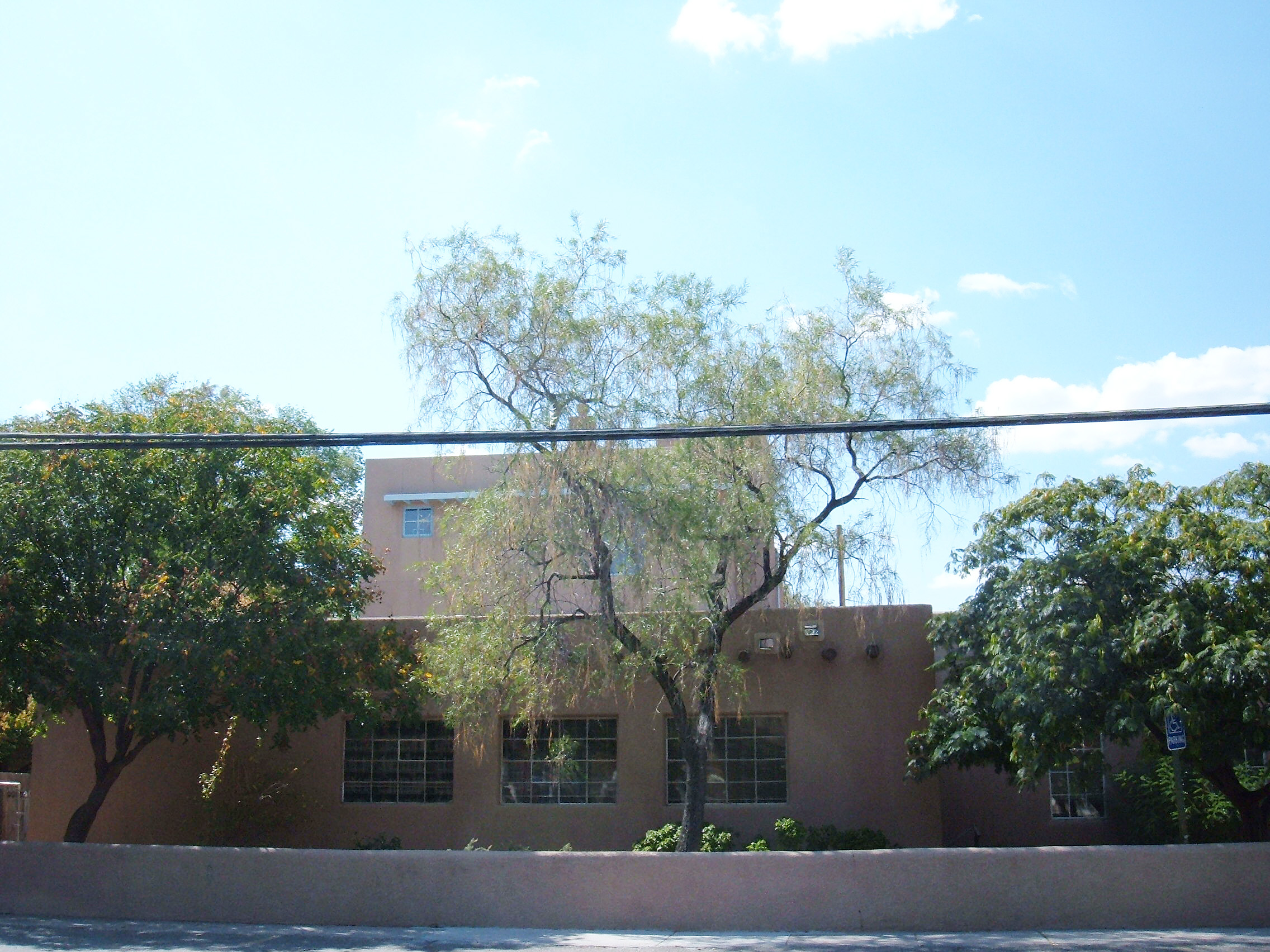 Socorro Public Library in Socorro, New Mexico. The original structure is a one-story adobe building in front, and a three-story addition has been built in back.